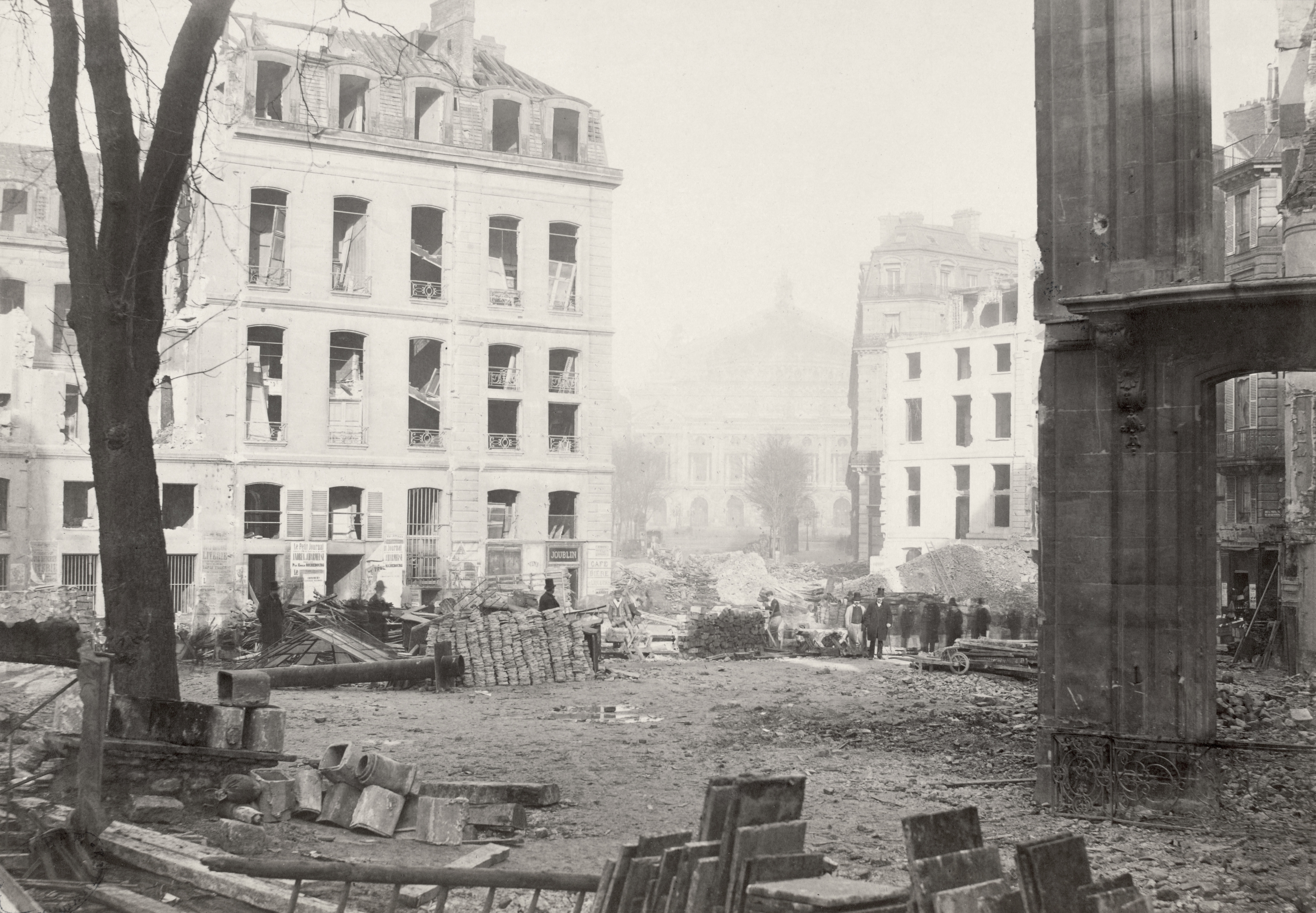 Demolition of buildings in the construction of the Avenue de l'Opéra: Looking across space filled with builders' rubble piping and partly demolished buildings, opera house visible in background through gap in buildings, men in suits and top hats and worken standing near rubble in background.